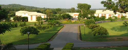 Loyola College, Abuja, from Jesuit Residence atop hill